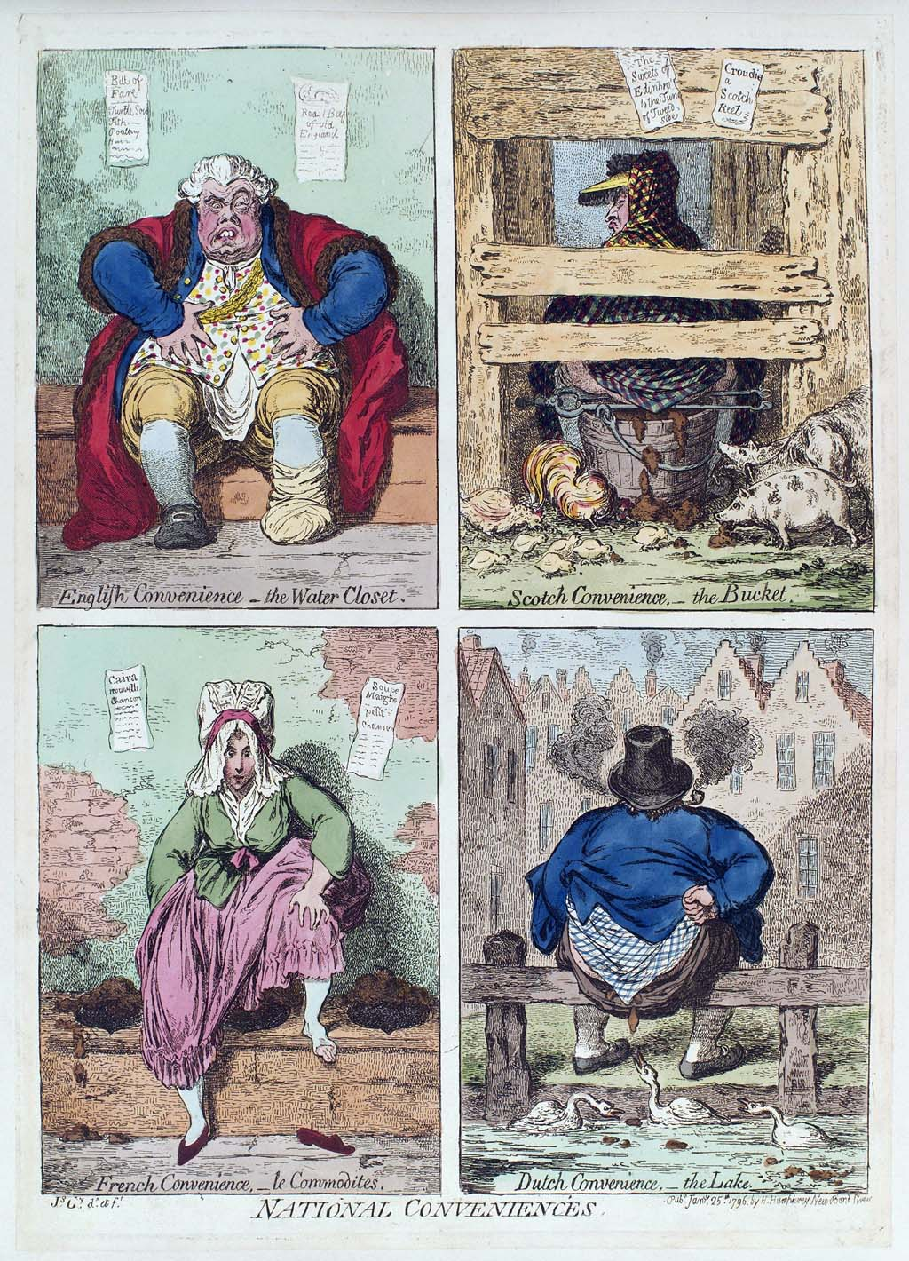 National Conveniences: Four ways of shitting, 1796. English, Scotch, French, Dutch.